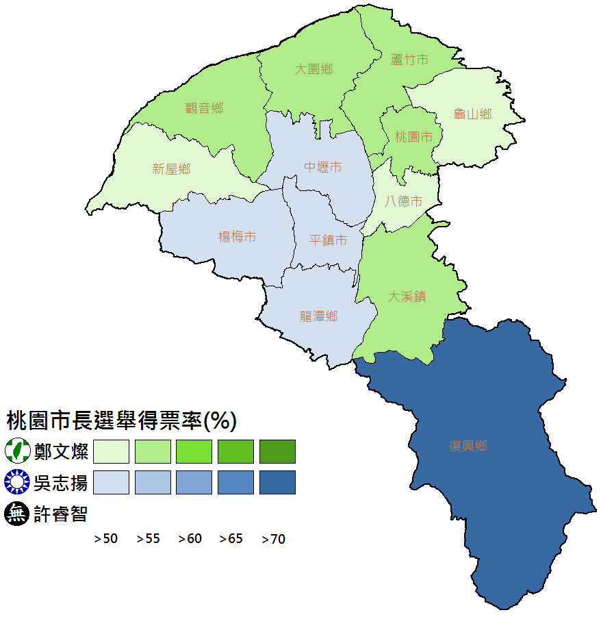 Added text of different districts of Taoyuan on the original file of Taoyuan 2014.png